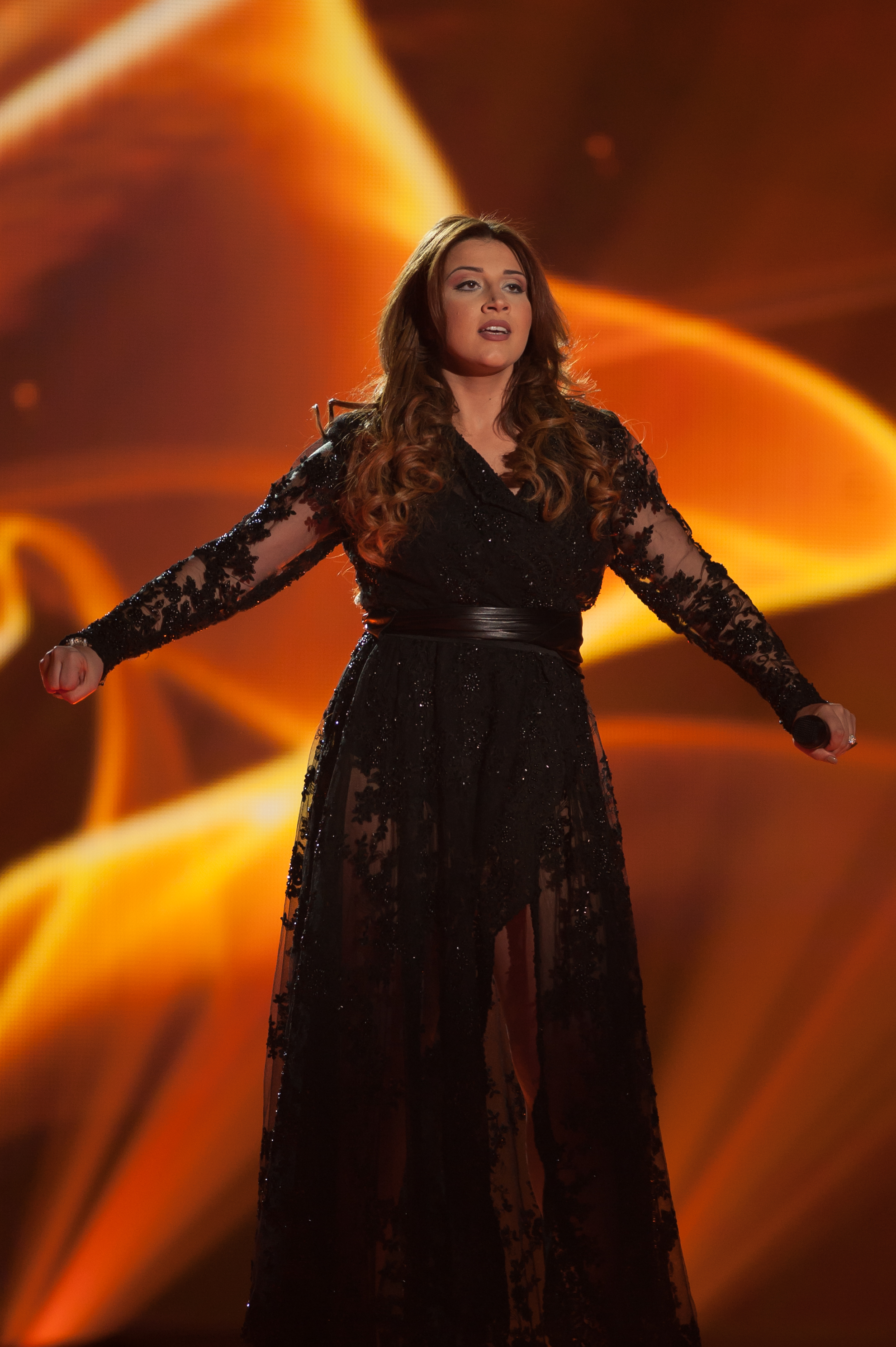 Eurovision Song Contest Vienna 2015: Amber